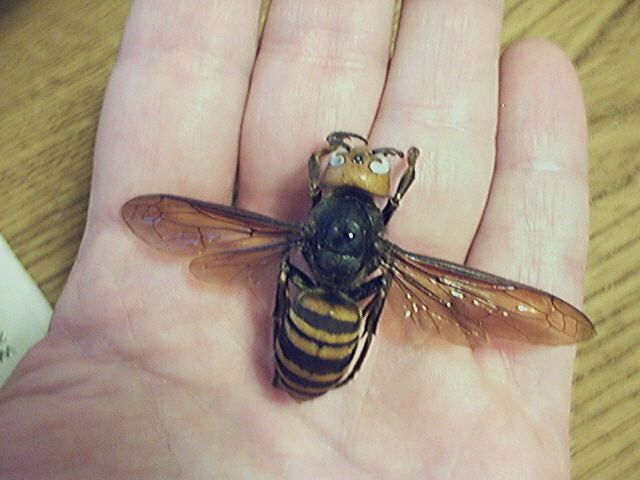 I am holding the world's LARGEST hornet in my hand.